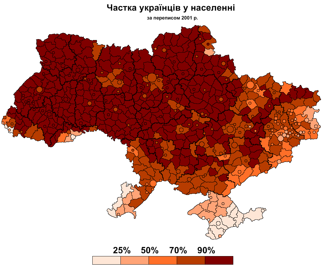 Share of ethnic ukrainians among the population of Ukraine, census 2001